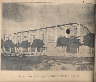 ANtigua cÁrcel Pública. En la actualidad EScuela Secundaria Básica